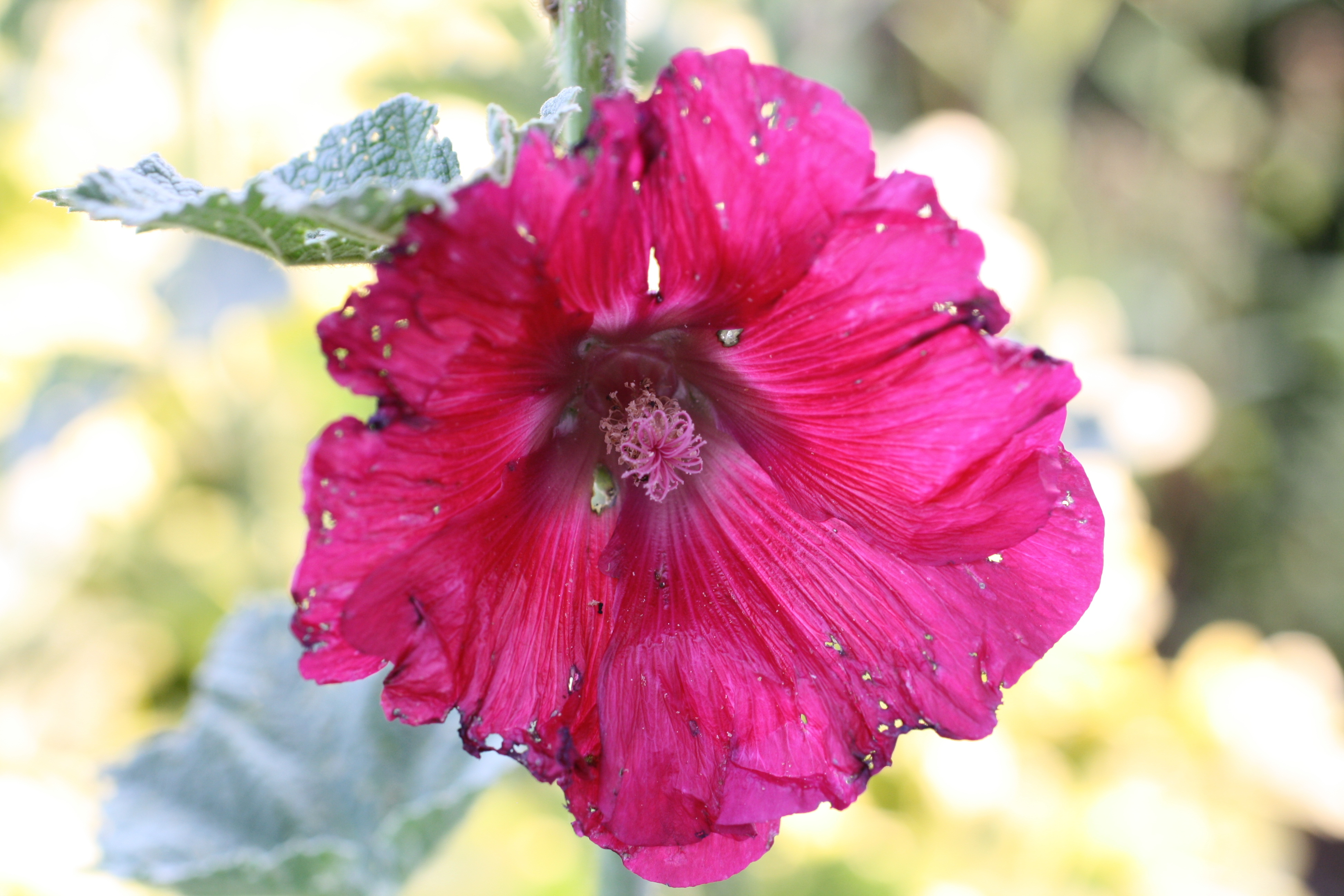 Damage caused by Rhopalapion longirostre: Fuzzy flower